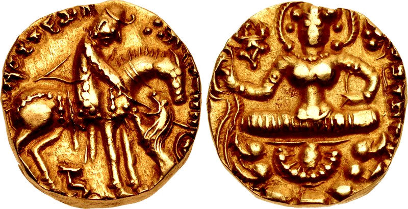 Toramana gold coin circa 490-515. AV Dinar (18mm, 9.53 g, 12h). Parahitkari [raja] vijitya [va]sudham divam jaya[ti] in Brahmi, male figure wearing Hunnic-style crown on horseback right, bow slung across torso, spearing lion that stands left on its hind legs; Garuda standard above, ru in Brahmi below; triple pellets in legend / [Śri] prakaśaditya in Brahmi to right, Lakshmi, nimbate, seated facing on lotus, holding diadem in extended right hand and lotus in left; tamgha to upper left. For a more definite interpretation of the obverse coin legend: ""Avanipati Torama(no) vijitya vasudham divam jayati" ie "The lord of the Earth, Toramana, having conquered the Earth, wins Heaven", see The Identity of Prakasaditya by Pankaj Tandon, Boston University [1]